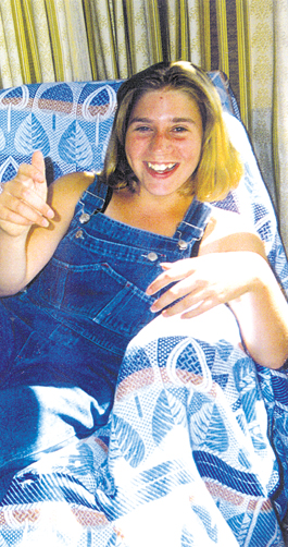 A photograph of murdered teenager Kirsty Bentley, taken by her mother.